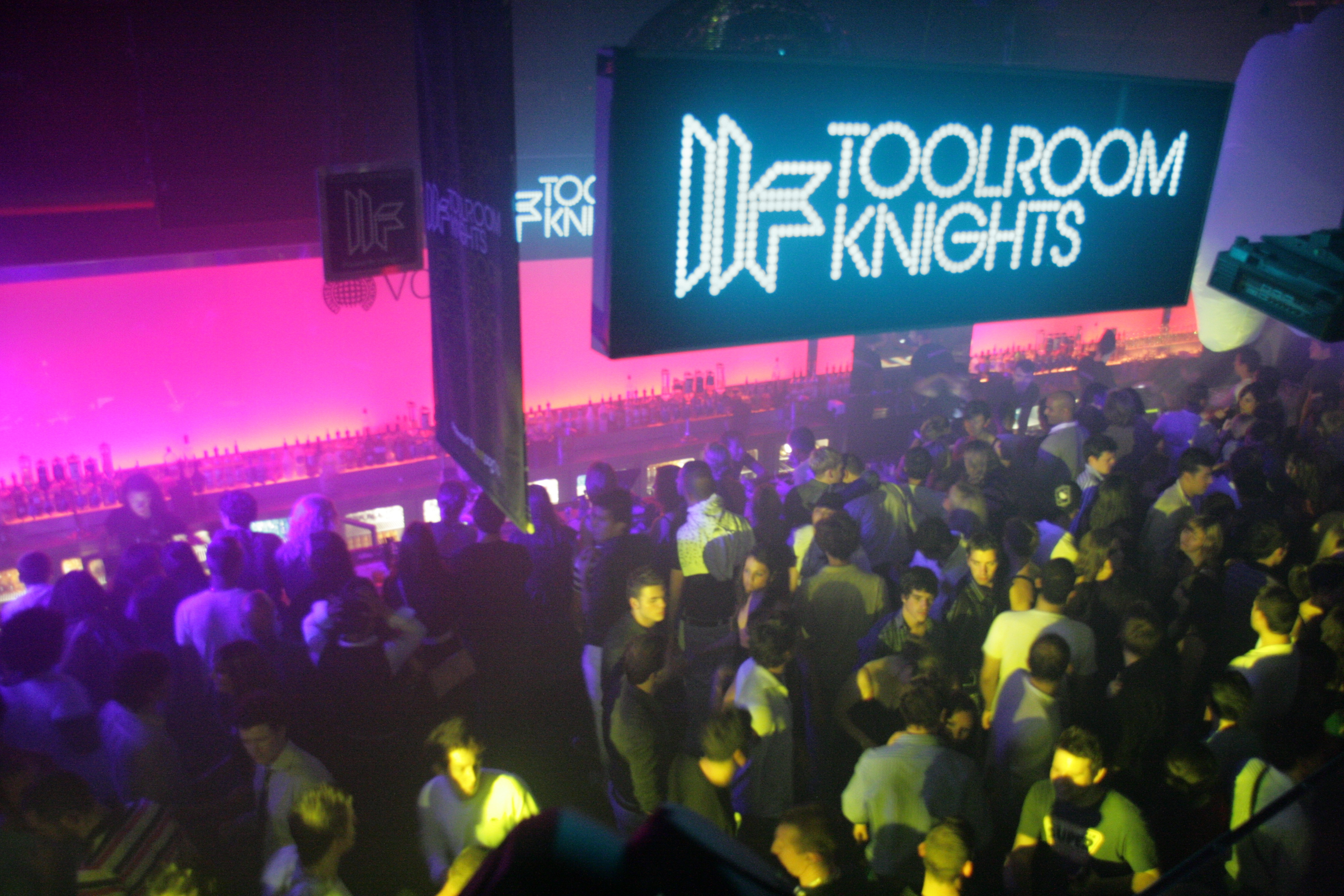 Toolroom Knights @ Ministry of Sound in London